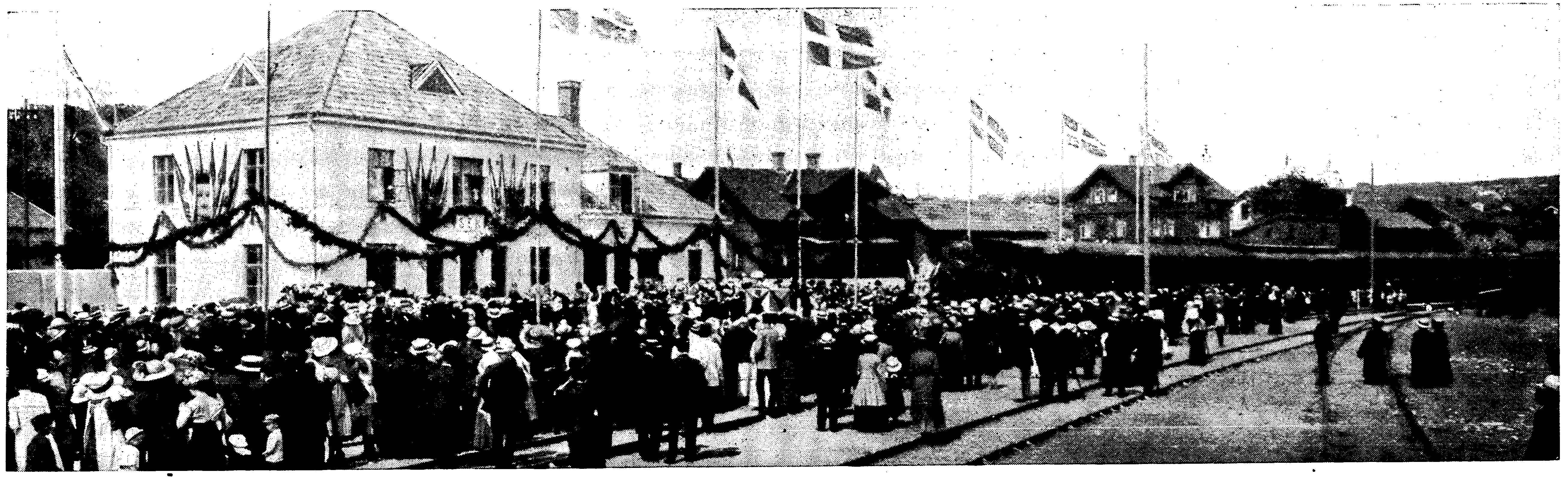 Dedication of the railway between LYSEKIL-Smedberg at Lysekil railway station on 15 June.